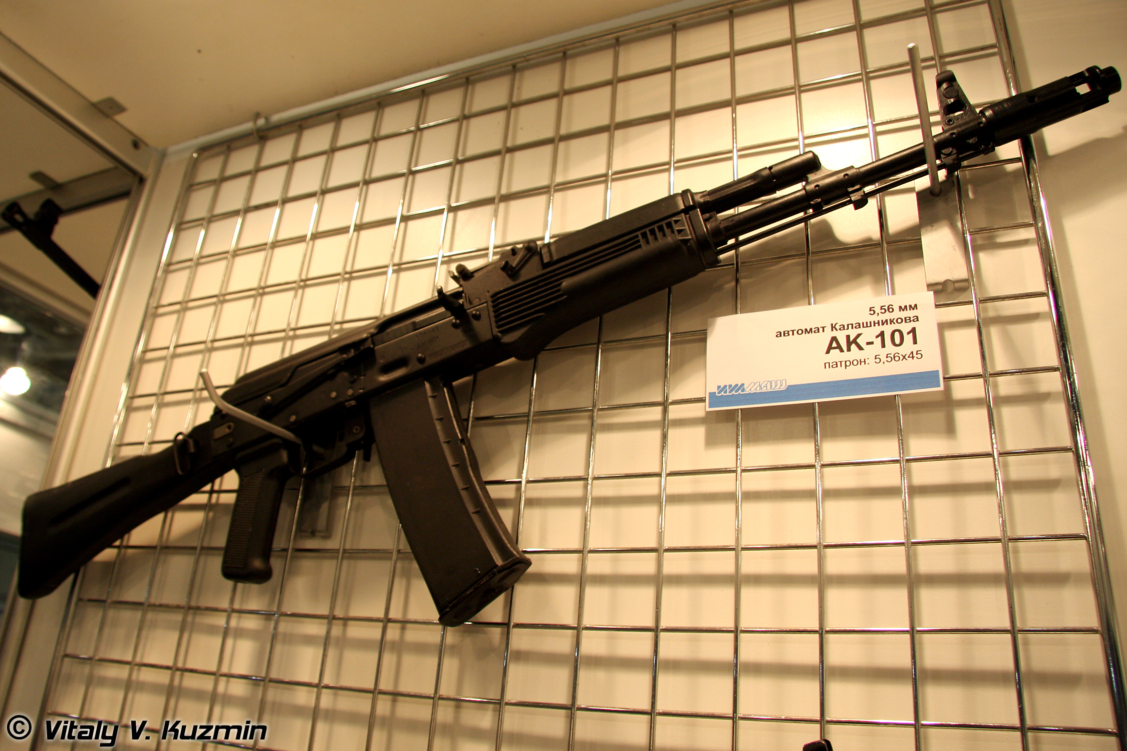 AK-101 - Interpolitex-2009